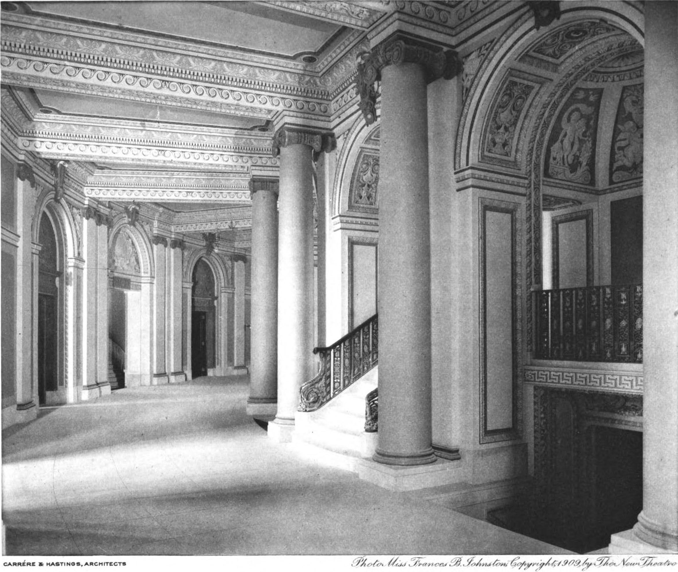 View of the main foyer circulation of the New Theatre on Central Park West in New York City.